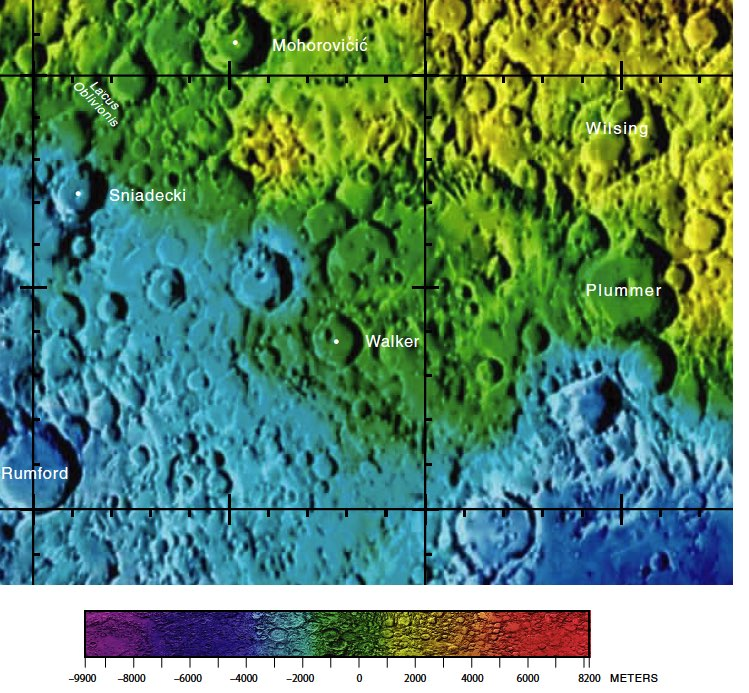 Part of the Far side lunar map is used for the presentation